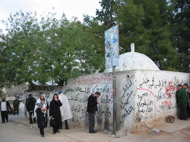 Joshua's Tomb at Kifl Hares, Palestinian town in the northern West Bank.